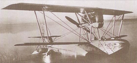 Italian Macchi M.7ter flying boat fighter